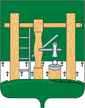 Alapaevsk (Sverdlovsk oblast), coat of arms